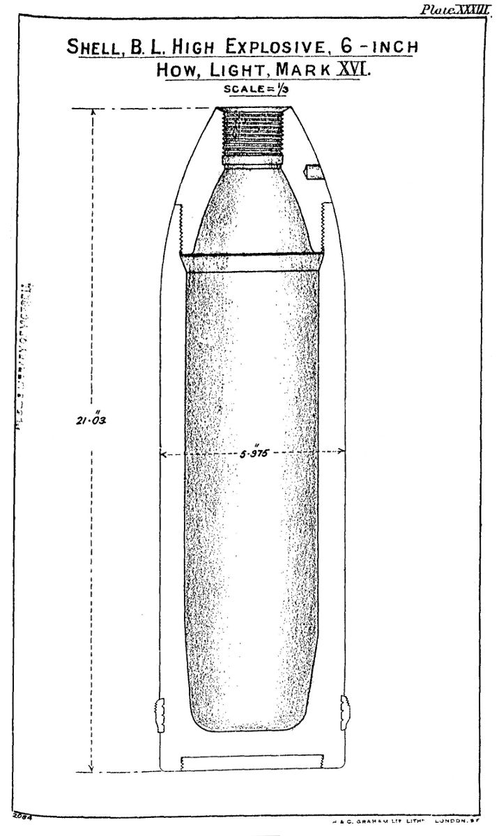 Diagram depicting light high explosive Mk XVI shell for British BL 6-inch 26 cwt howitzer. Weight filled and fuzed 100 pounds.